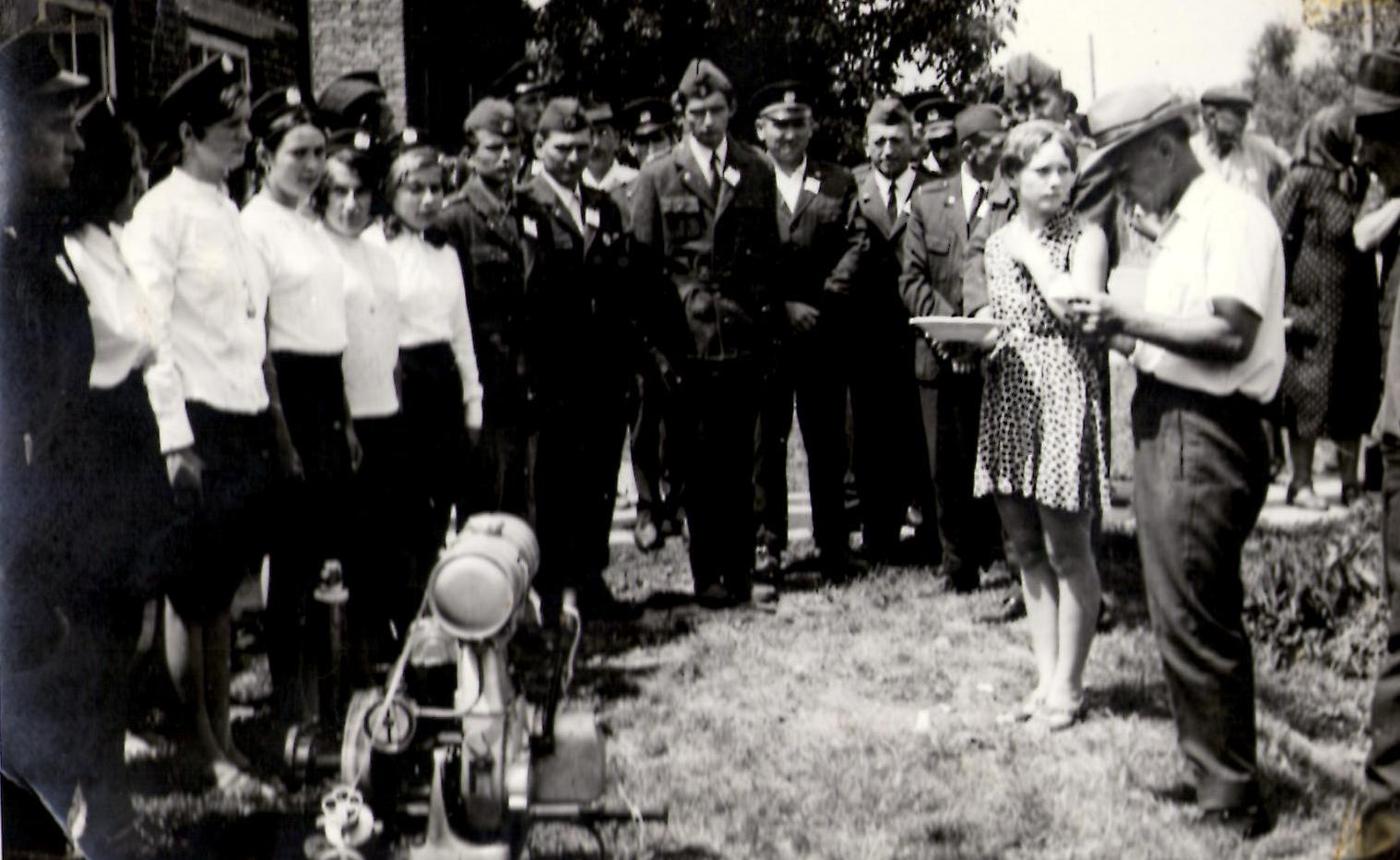 Fire drill in Bulinac, Croatia